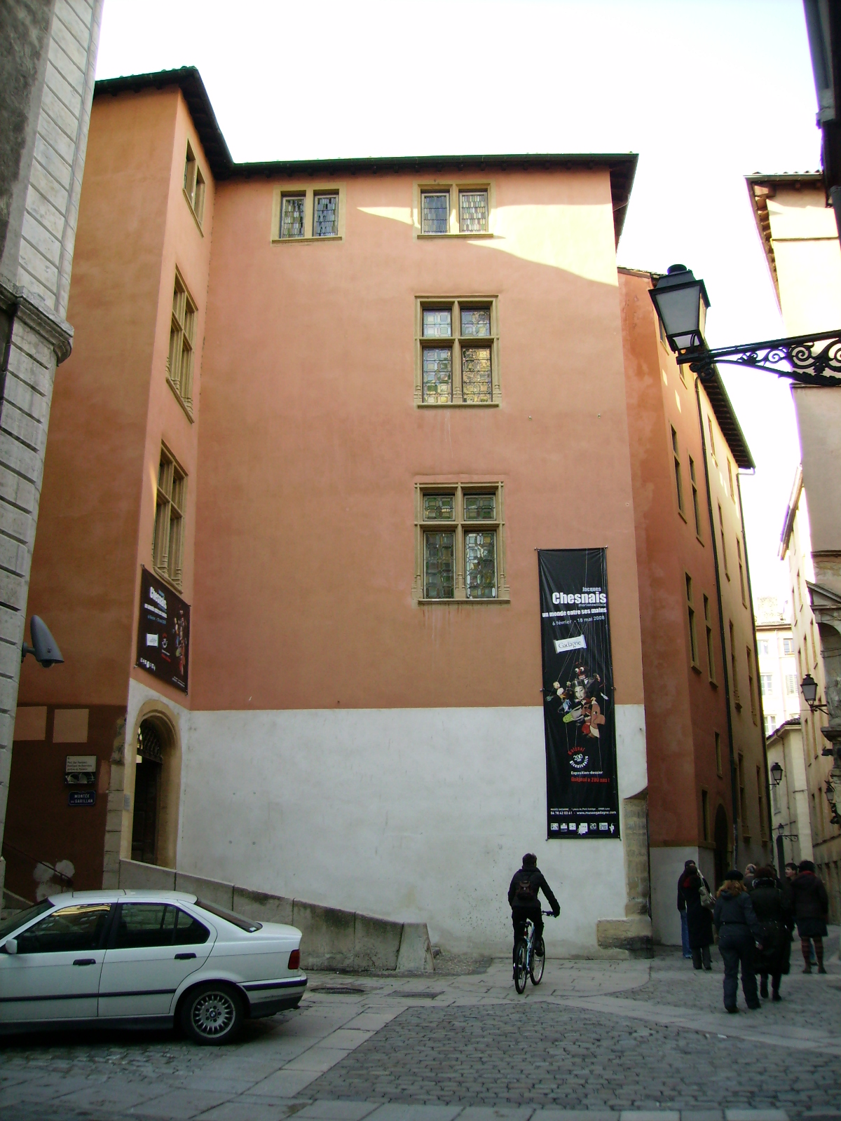 Entry of Gadagne Museum of Lyon